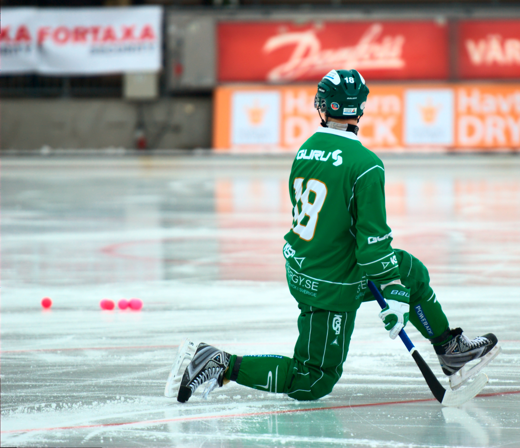 Robert Rimgård. Stretching before game. Bandy match between Hammarby and GAIS in Elitserien, Zinkendamms IP (Stockholm) 2012-02-11.